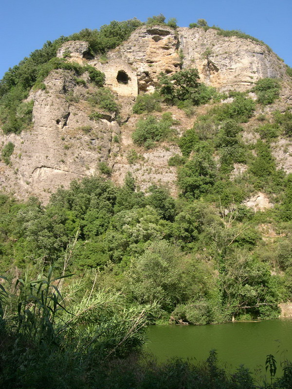 Sant Miquel de la Roca in Crespià (Pla de l'Estany, Catalonia), over river Fluvià.